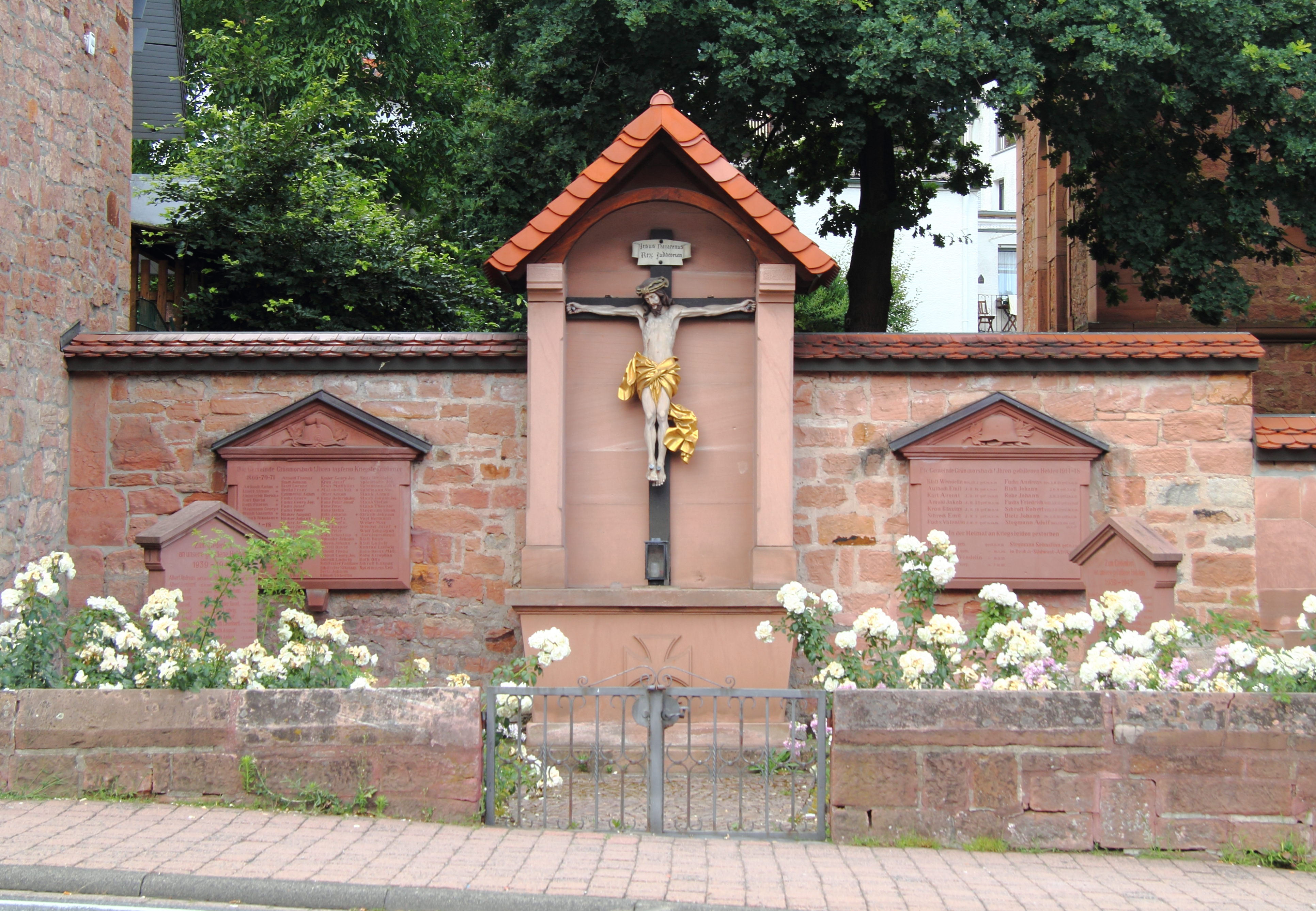 Bavaria, Germany: Grünmorsbach, part of the community of Haibach, Lower Franconia in the Aschaffenburg district